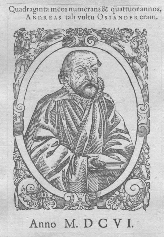 Portrait of Andreas Osiander der Jüngere, woodcut 134x102 mm